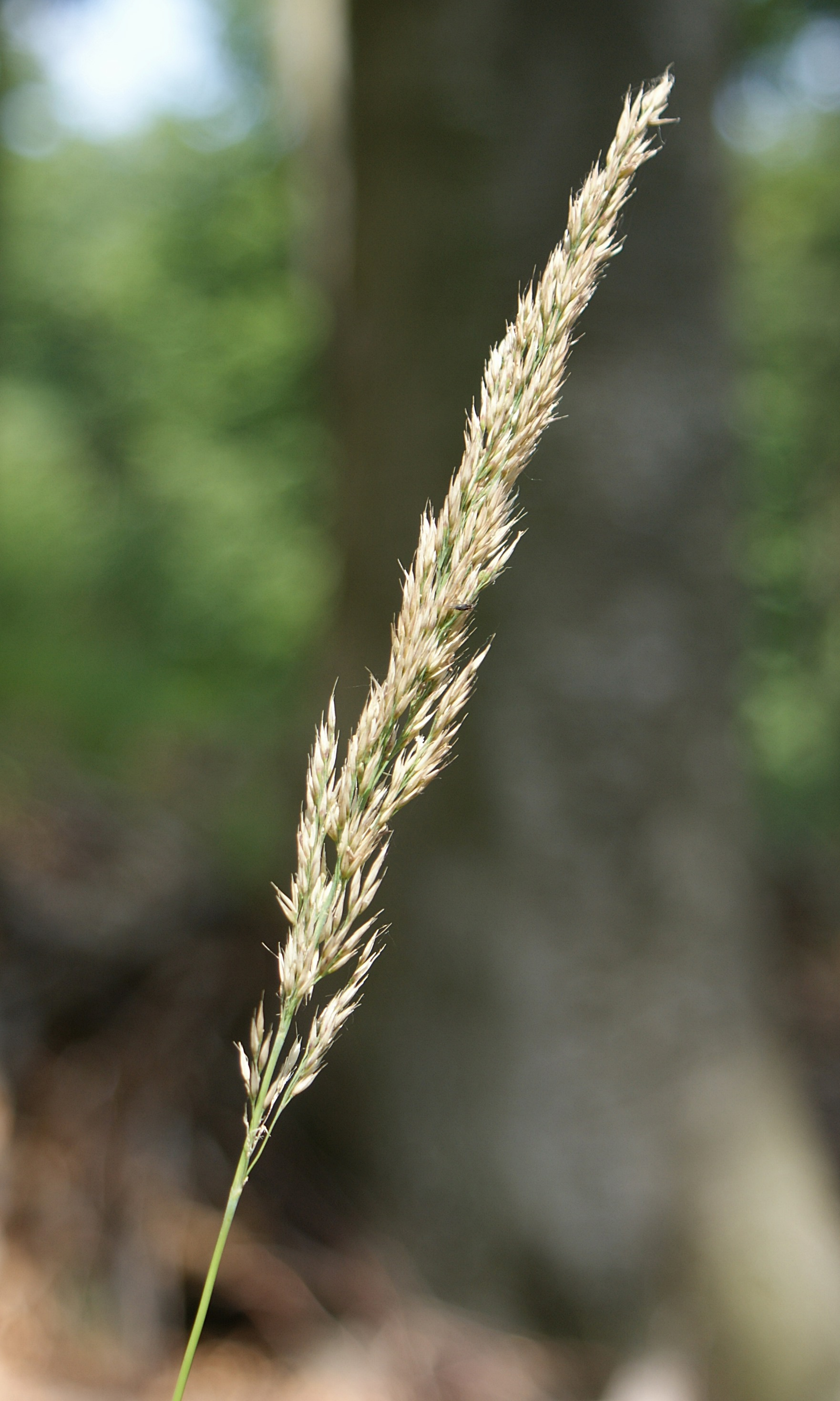 Calamagrostis arundinacea. Near Szczecin (NW Poland)